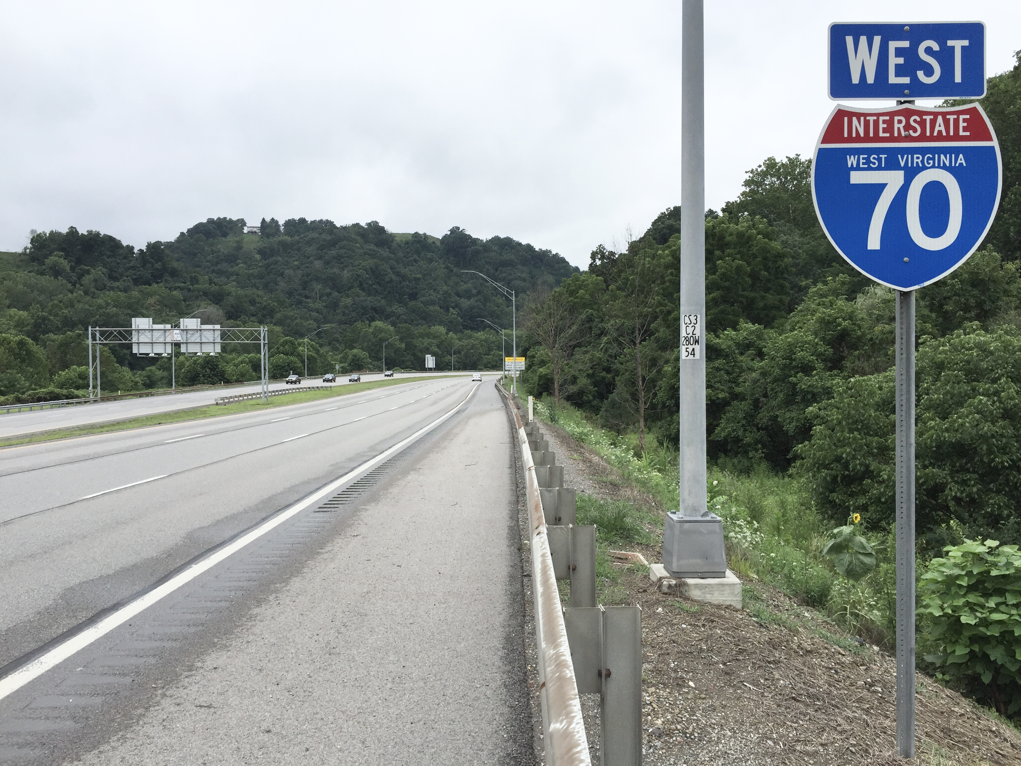 View west along Interstate 70 just west of Exit 5 (Interstate 470 West, Columbus OH) in Wheeling, Ohio County, West Virginia